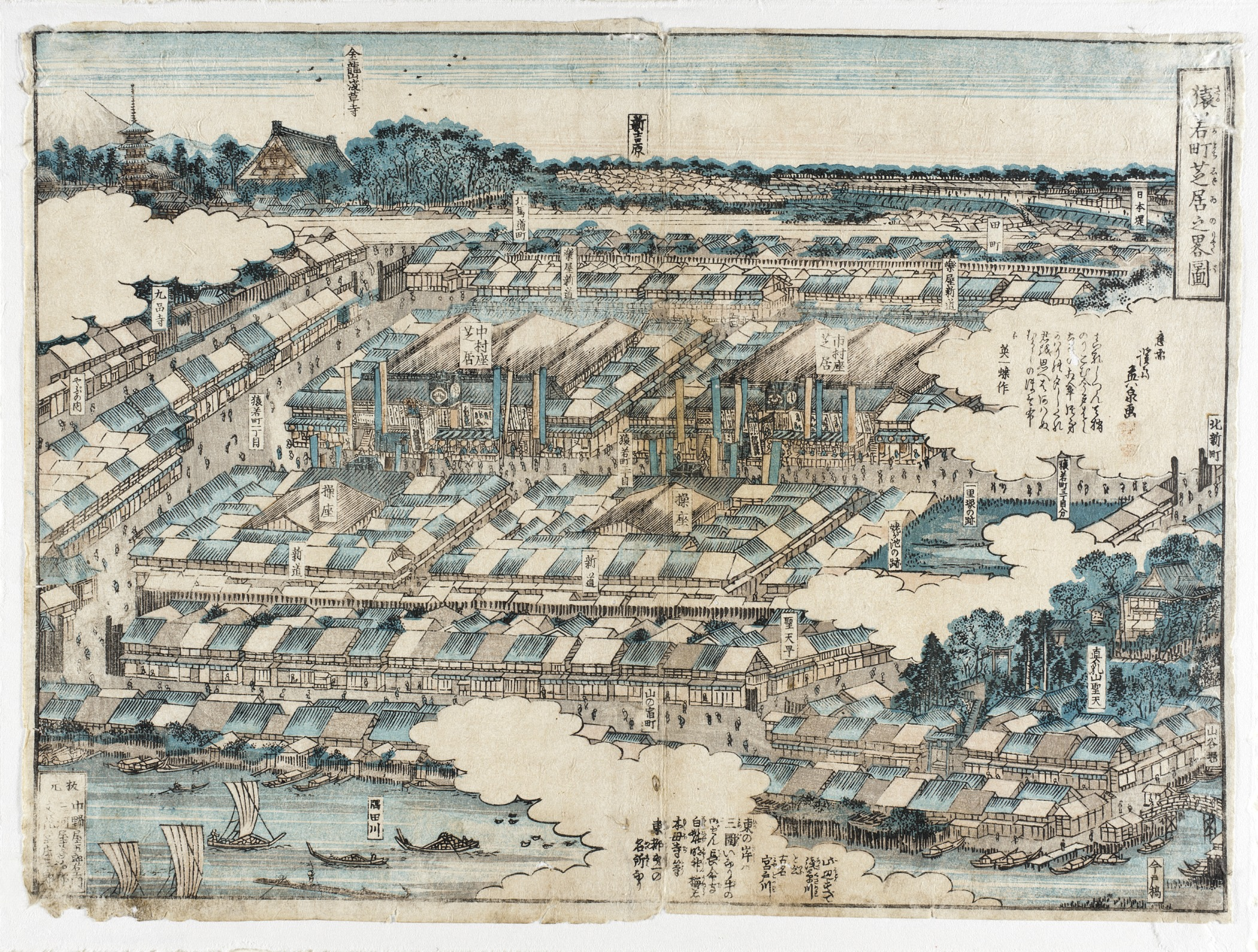 Japan, 1820 Prints; woodcuts Color woodblock print Image: 13 13/16 x 18 1/16 in. (35.09 x 45.88 cm); Sheet: 13 5/8 x 18 3/8 in. (34.61 x 46.68 cm) Gift of Chuck Bowdlear, Ph.D., and John Borozan, M.A. (M.2000.105.172) Japanese Art